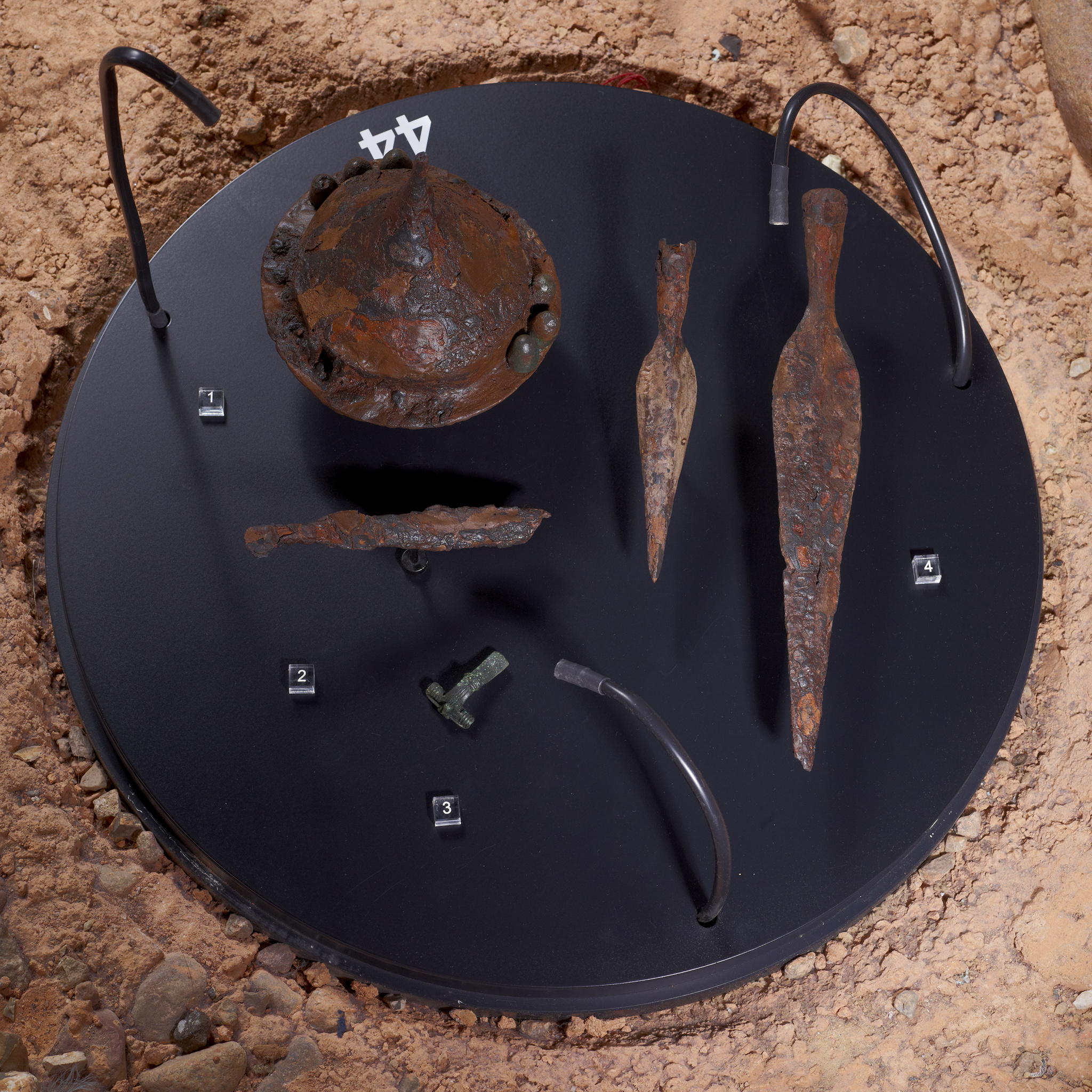 Part of grave inventory of Langobardic warriors burial Hamburg-Marmstorf Grave 216. Consisting of a shield boss (1) with handle (2), a bronze fibula (3) and two spear heads (4) in the showcase of the permanent exhibition.